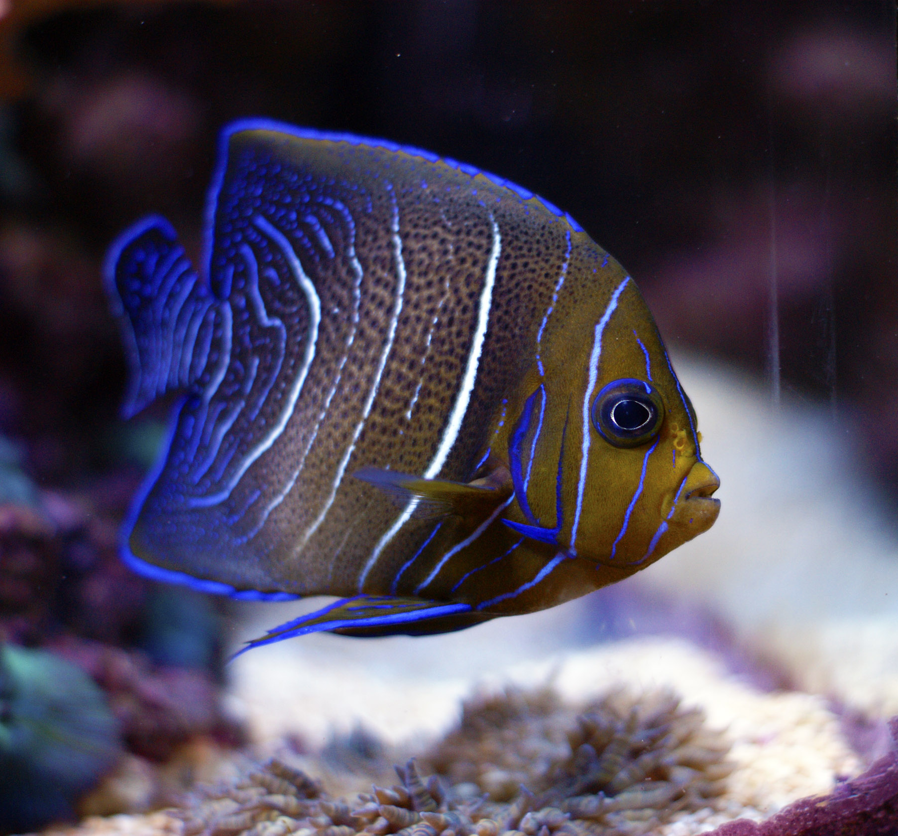 A juvenile Koran Angel